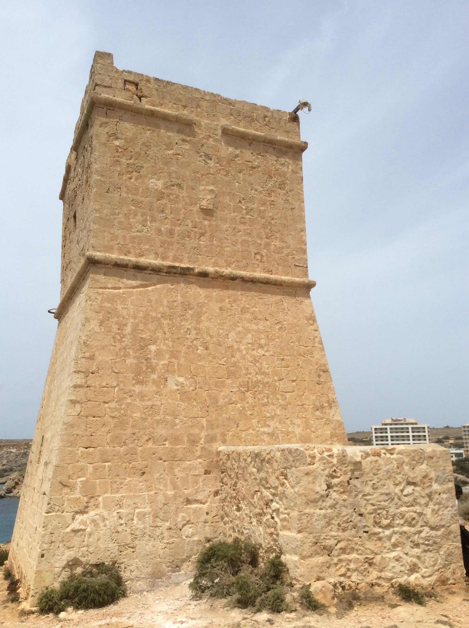 Għajn Tuffieħa Tower